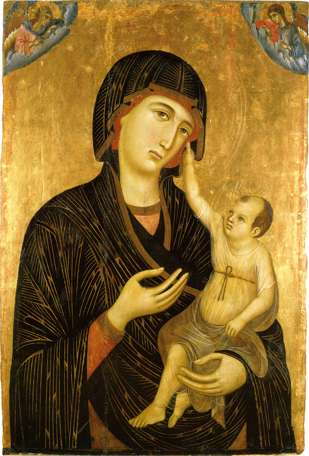 Madonna and Child with Two Angels (Crevole Madonna)